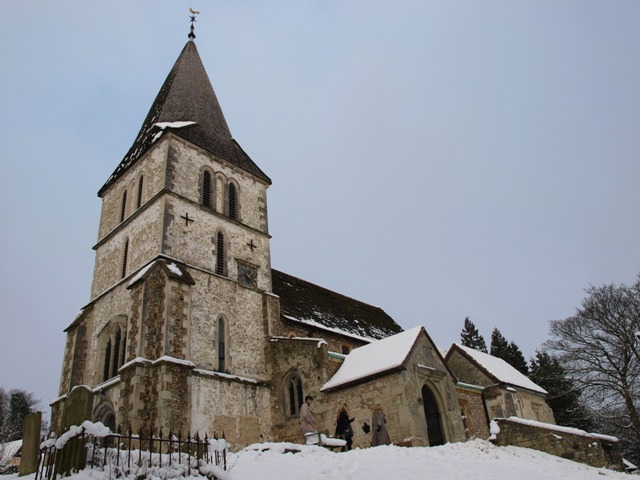 St Katharine's parish church, Merstham, Surrey, seen from the southwest in snow